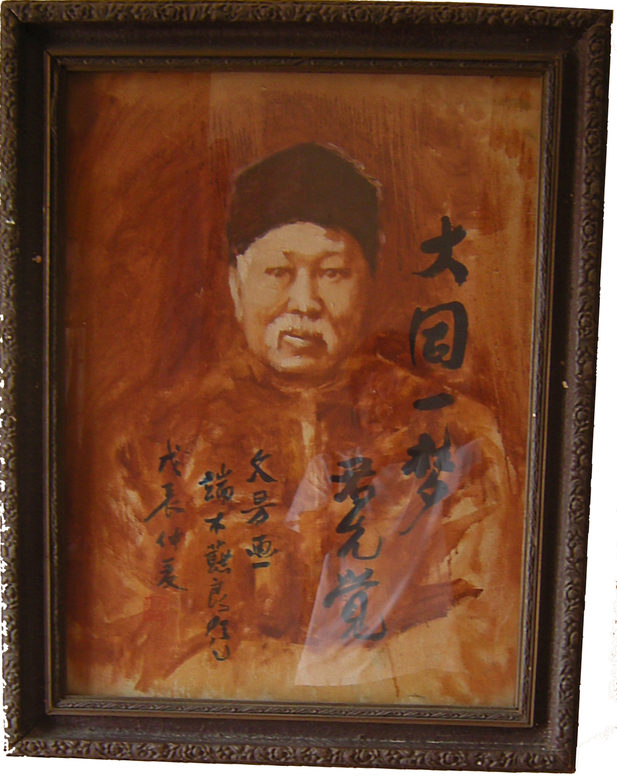 Kang youwei